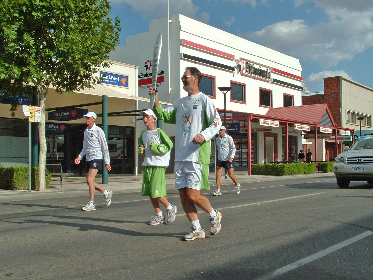 Queen's Baton Relay. Wagga Wagga, New South Wales